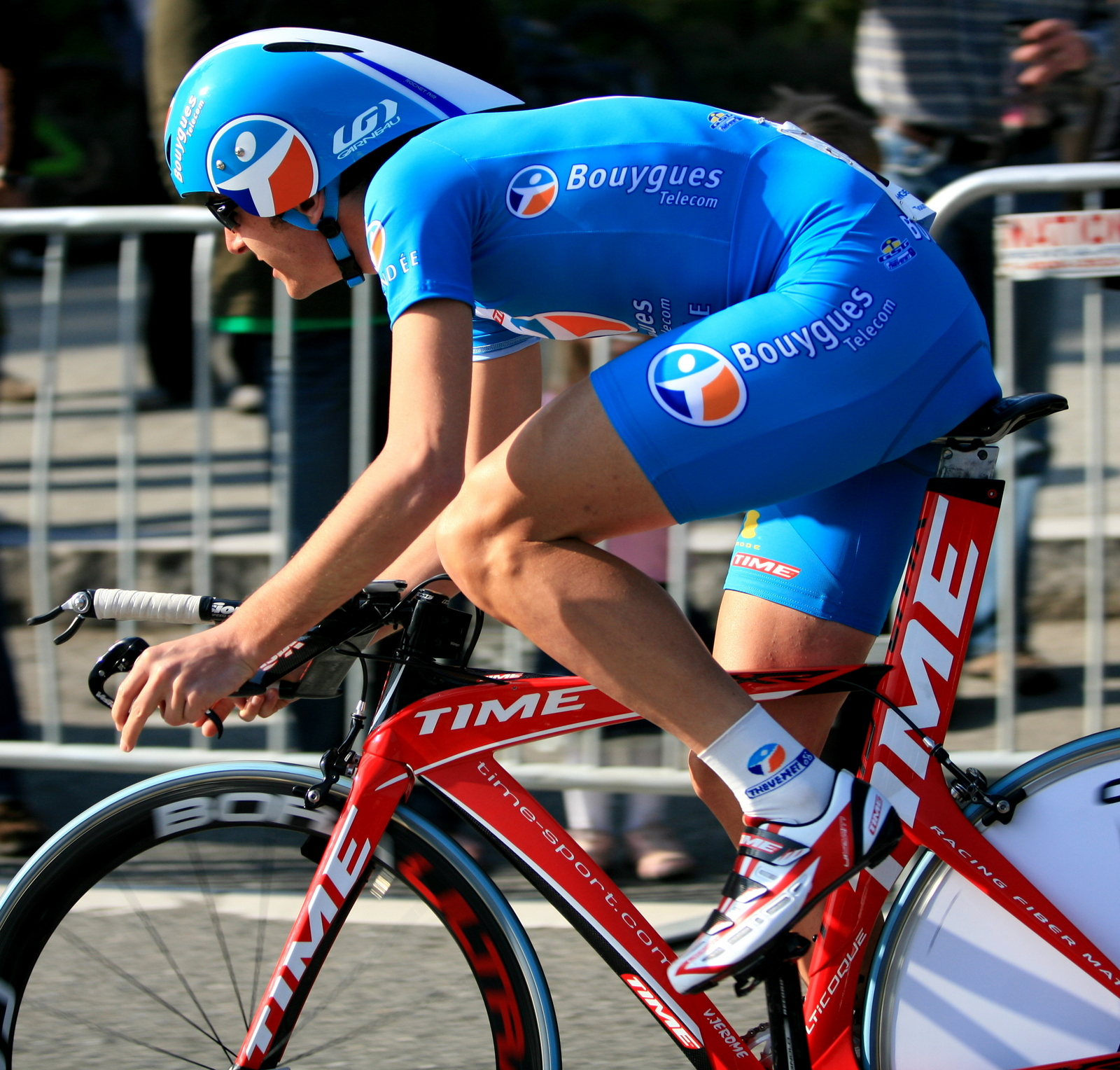 Vincent Jerome at the Prologue of the Tour of California in Palo Alto